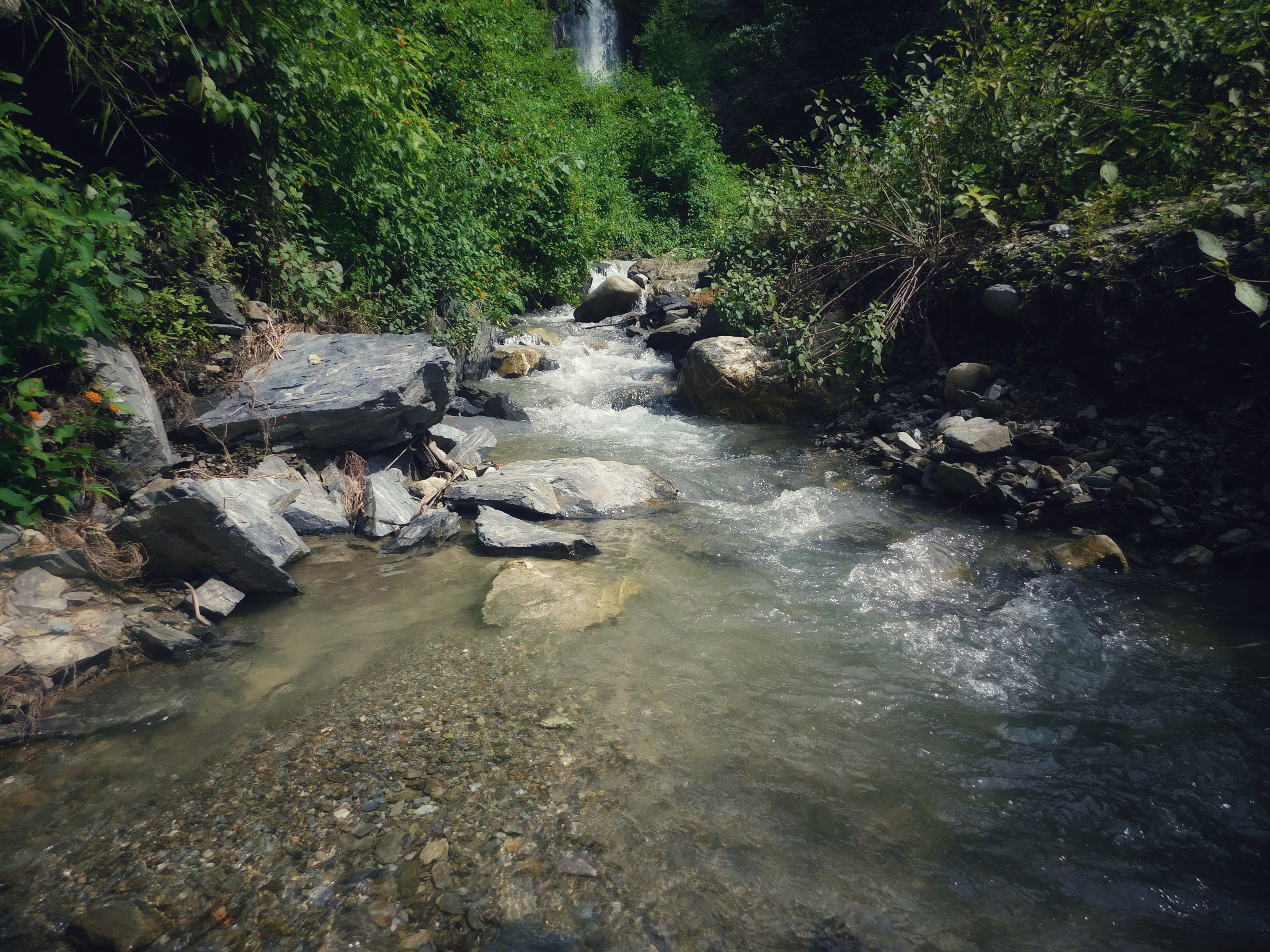 This photo of Waterfall at Marchula was shot by Jigyasu in Nainital,India